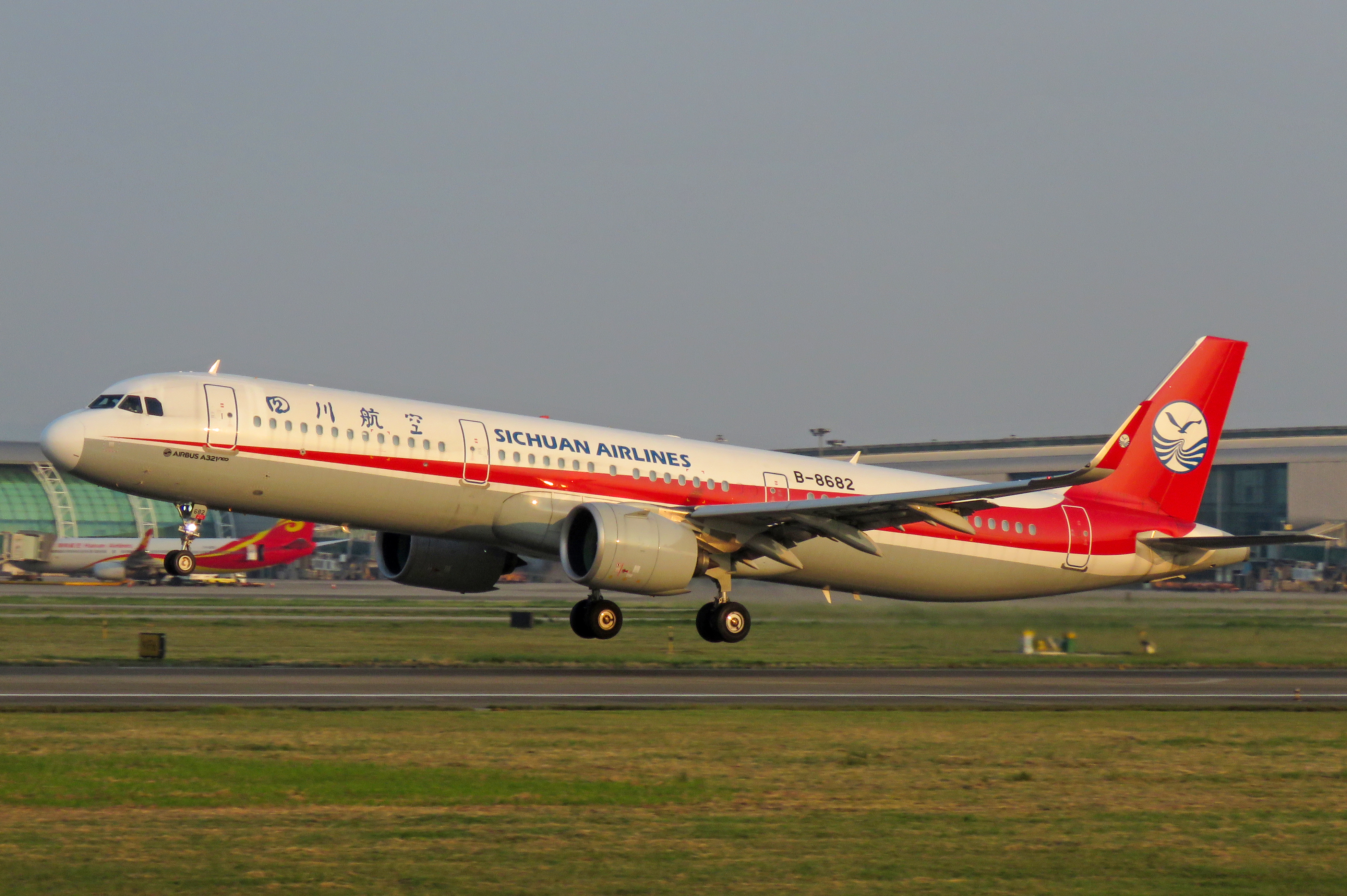 Sichuan 8734 to Chengdu. Hey I saw you again at Canton!